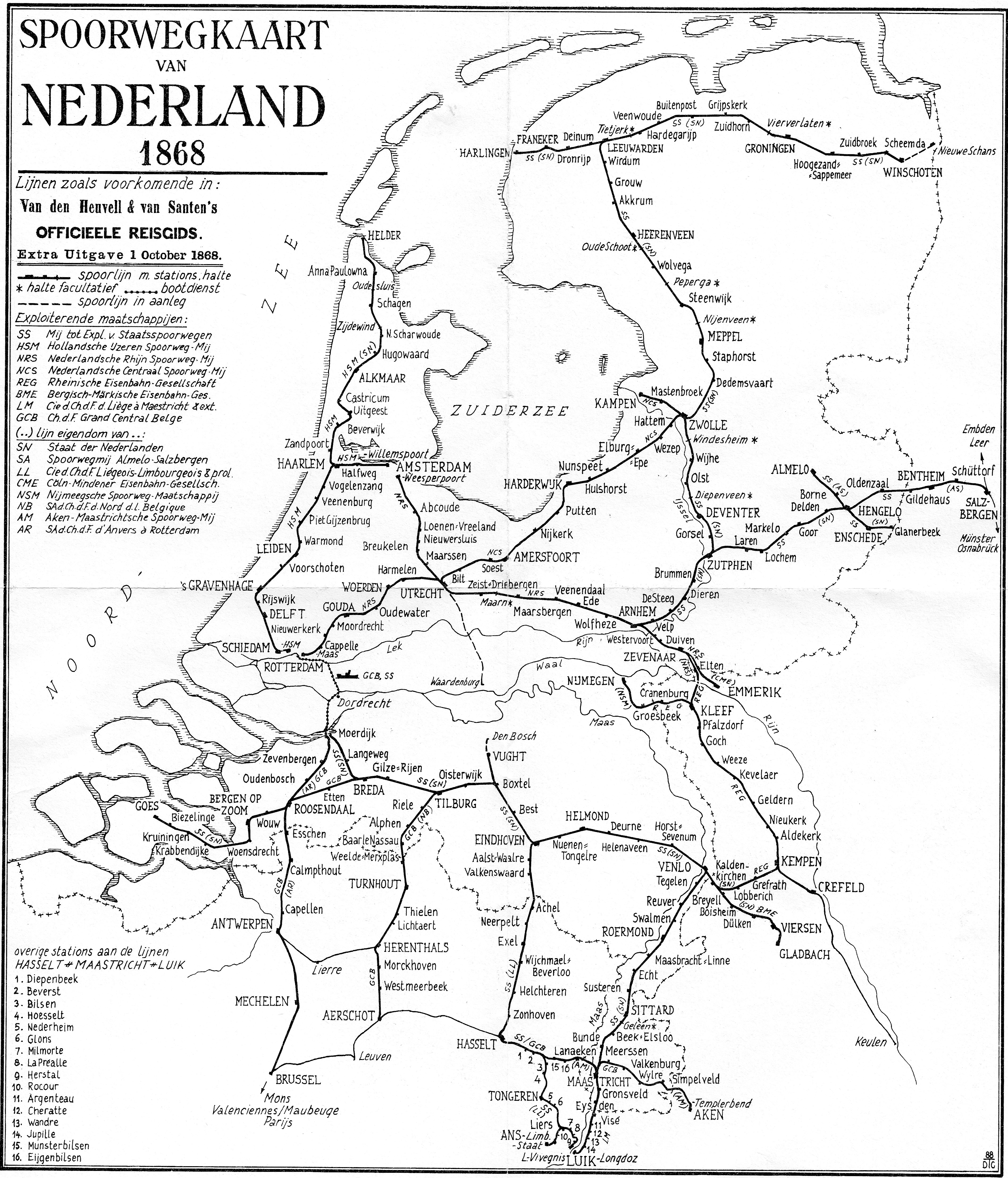 Railway map of the Netherlands from the official railway guide in 1868.